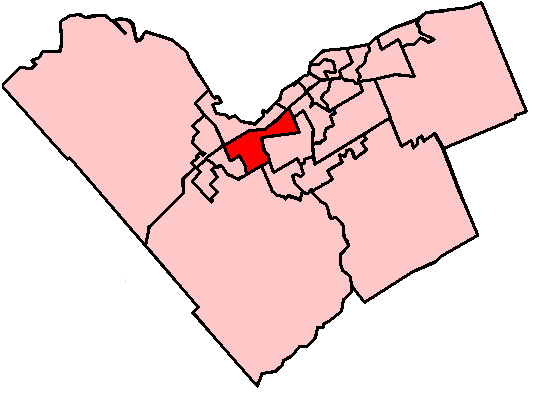 Map showing College Ward